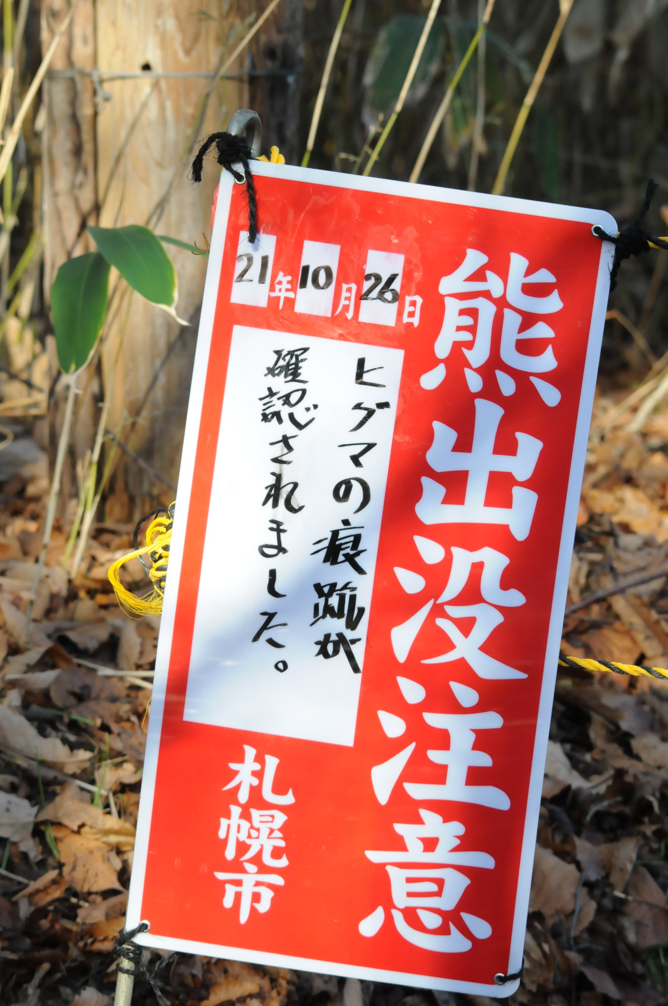 "Caution! A brown bear has crossed here recently." A signboard of the city of Sapporo, Japan.Nikon D300